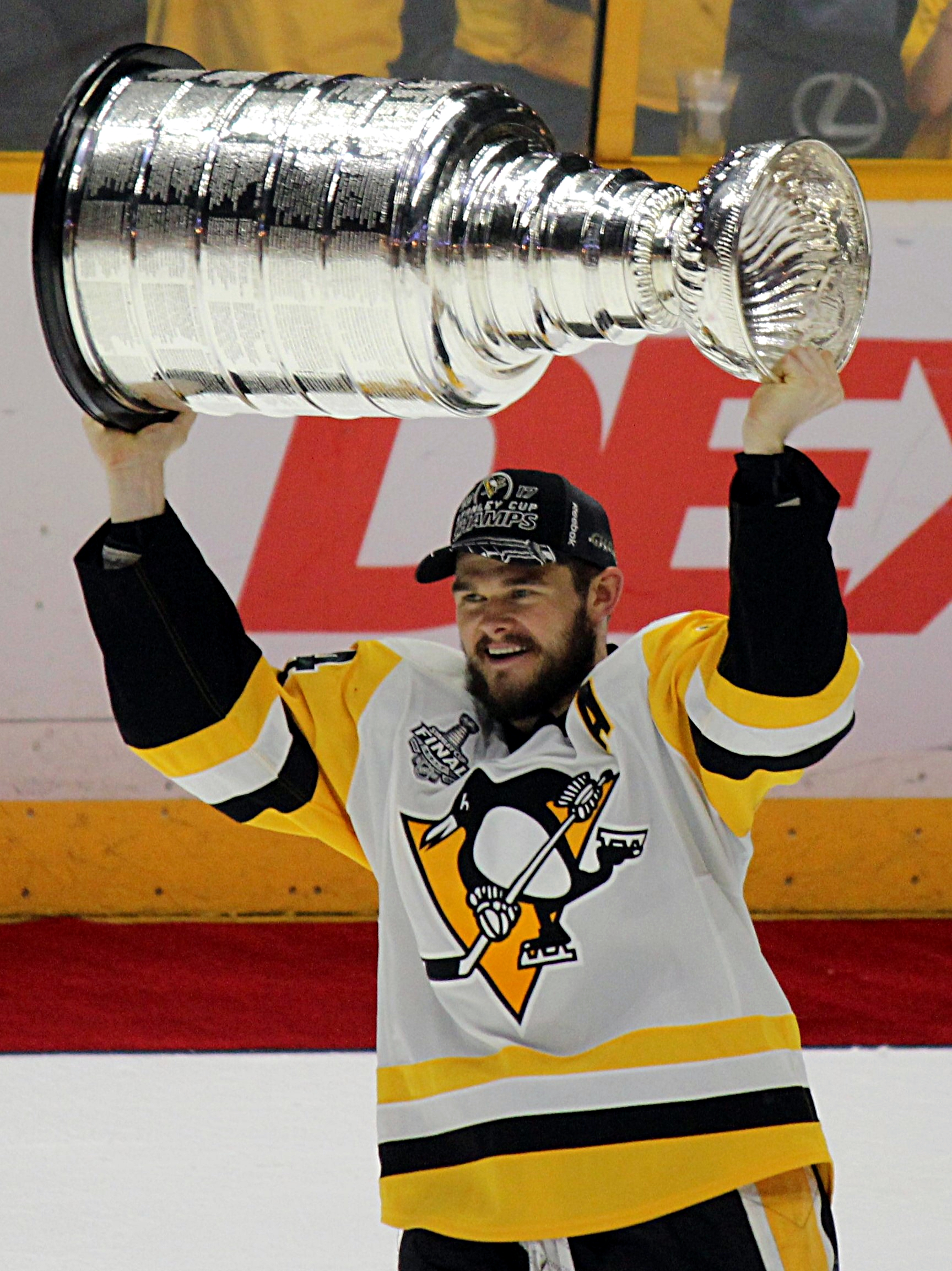 Pittsburgh Penguins forward Chris Kunitz raises the Stanley Cup, June 11, 2017, at Bridgestone Arena in Nashville, TN.